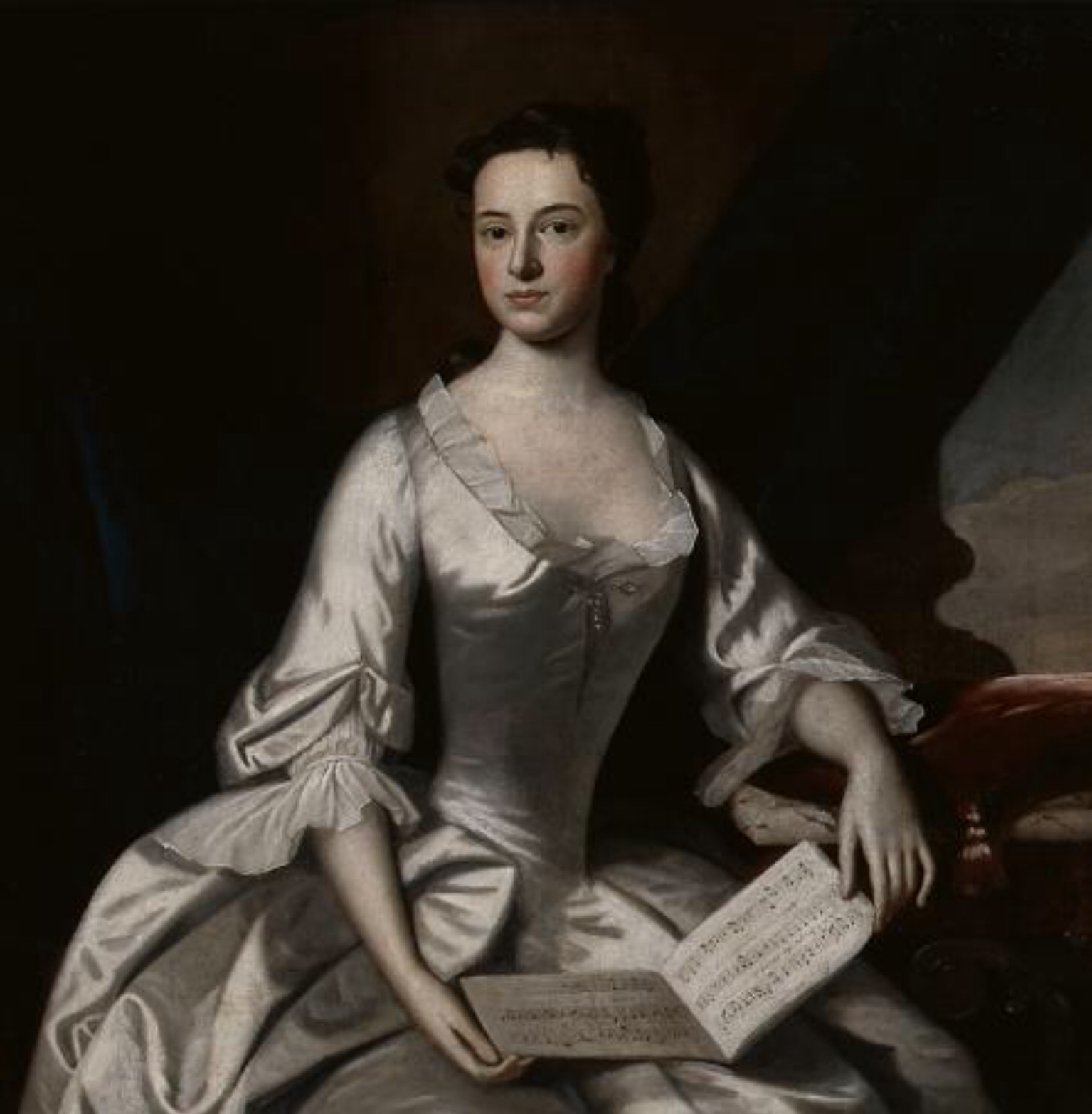 Portrait by Robert Feke of the former Grizzel Apthorp, Mrs Barlow Trecothick, painted about 1748